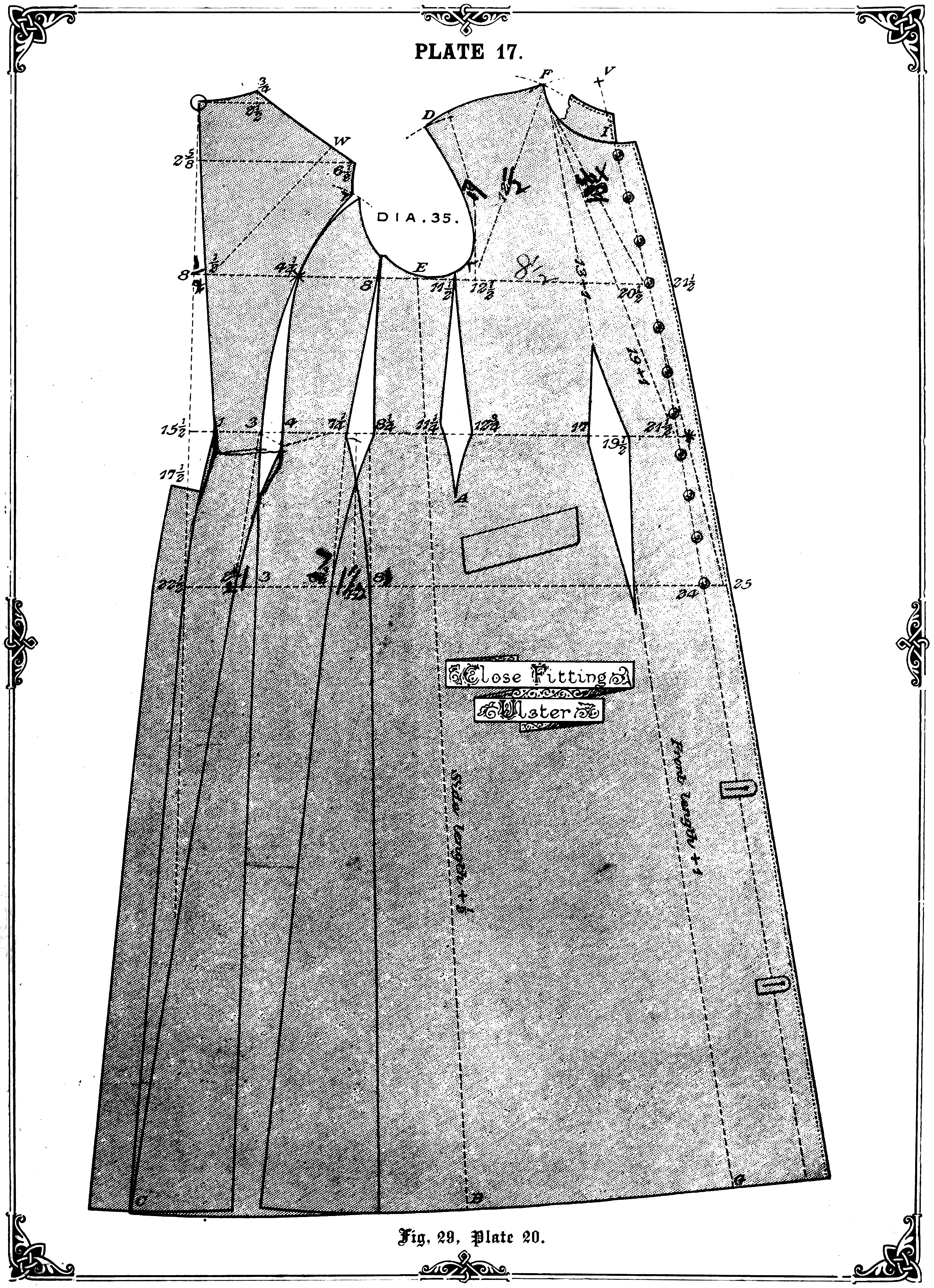 The cutters' practical guide to the cutting of ladies' garments